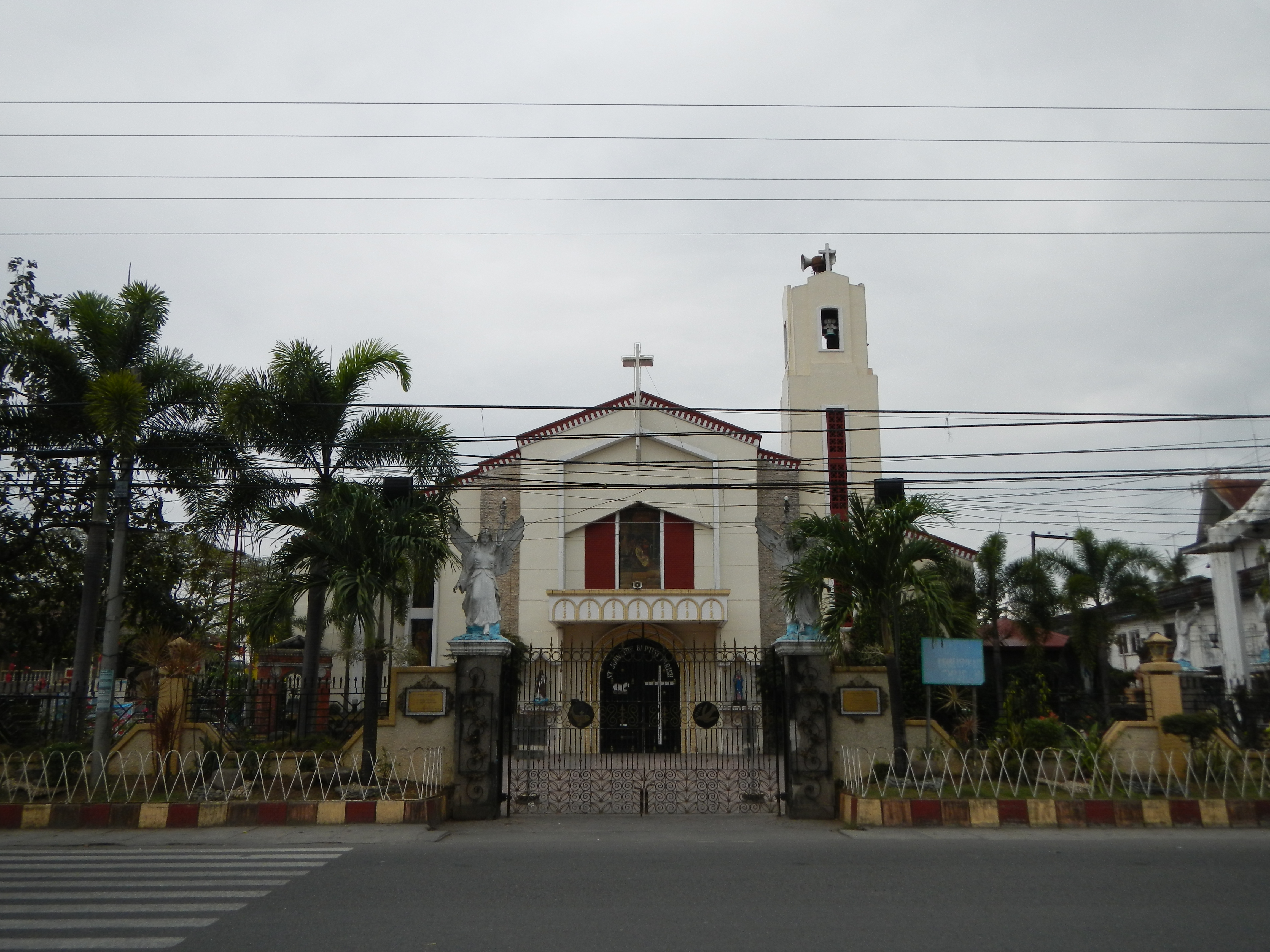 St. John the Baptist Parish Church, Dinalupihan, 2110 Bataan, Roman Catholic Diocese of Balanga[1][2] June 24 Vicariate of St. Peter of Verona I -Vicariate of Our Lady, Mirror of Justice Parish of St. John the BaptistFr. Rene de Leon, Parish Priest Dinalupihan, Bataan[3][4][5]Vicariate of St. Peter of Verona Pop.: 29,249 Cath.: 25,438 Parish Priest: Father Froilan Miguel[6]Diocese of Balanga(Dioecesis Balangensis) Suffragan of San Fernando, Pampanga Created: March 17, 1975. Canonically Erected: November 7, 1975. Comprises the whole civil province of Bataan. Titular: St. Joseph, Husband of Mary, April 28. Bishop Most Reverend Ruperto Cruz Santos, DD[7][8]Parish Priest : Fr. Josue V. Enero Parochial Vicar: Fr. Edgardo S. Sigua[9]